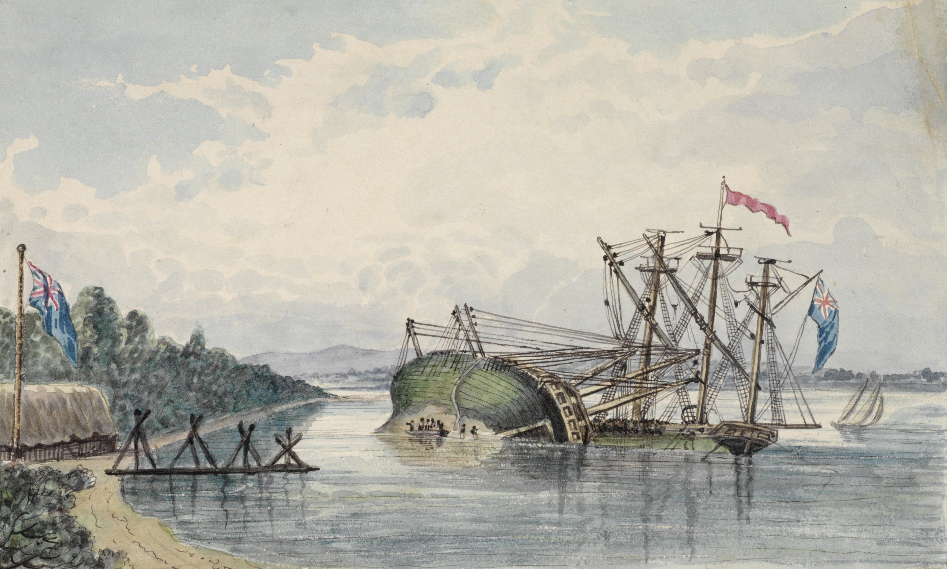 HMS Success undergoing repairs off Carnac Island Western Australia